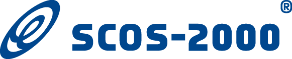 Logo from the SCOS-2000 system from ESA